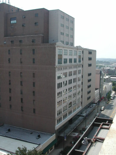 The Southern Furniture Exhibition Building was opened in 1923 in High Point, North Carolina, USA. It stands as the center of the High Point Market.